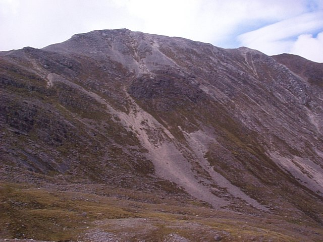 Amazing Folding Strata on Beinn Liath Mhor